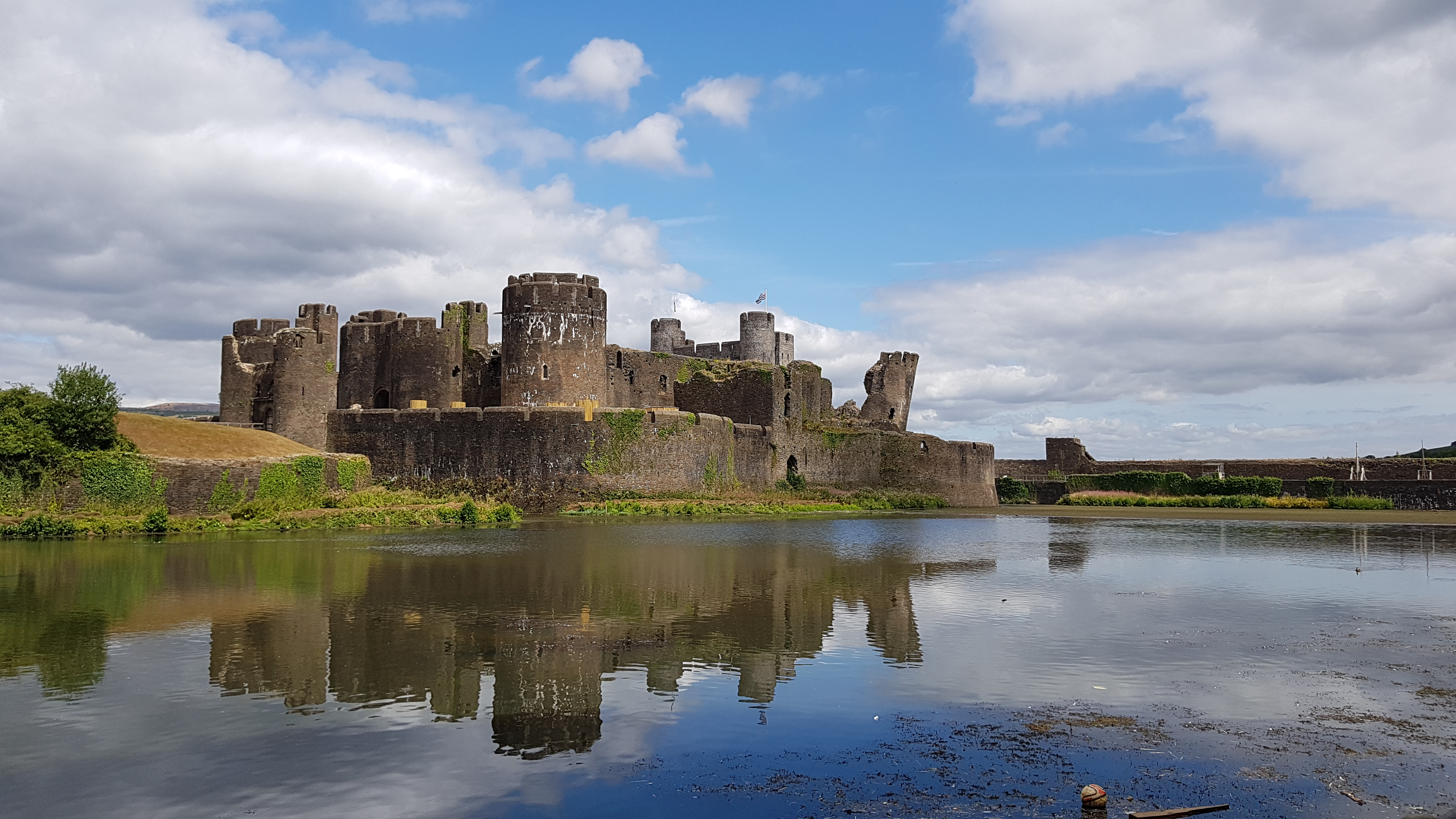 Caerphilly Castle